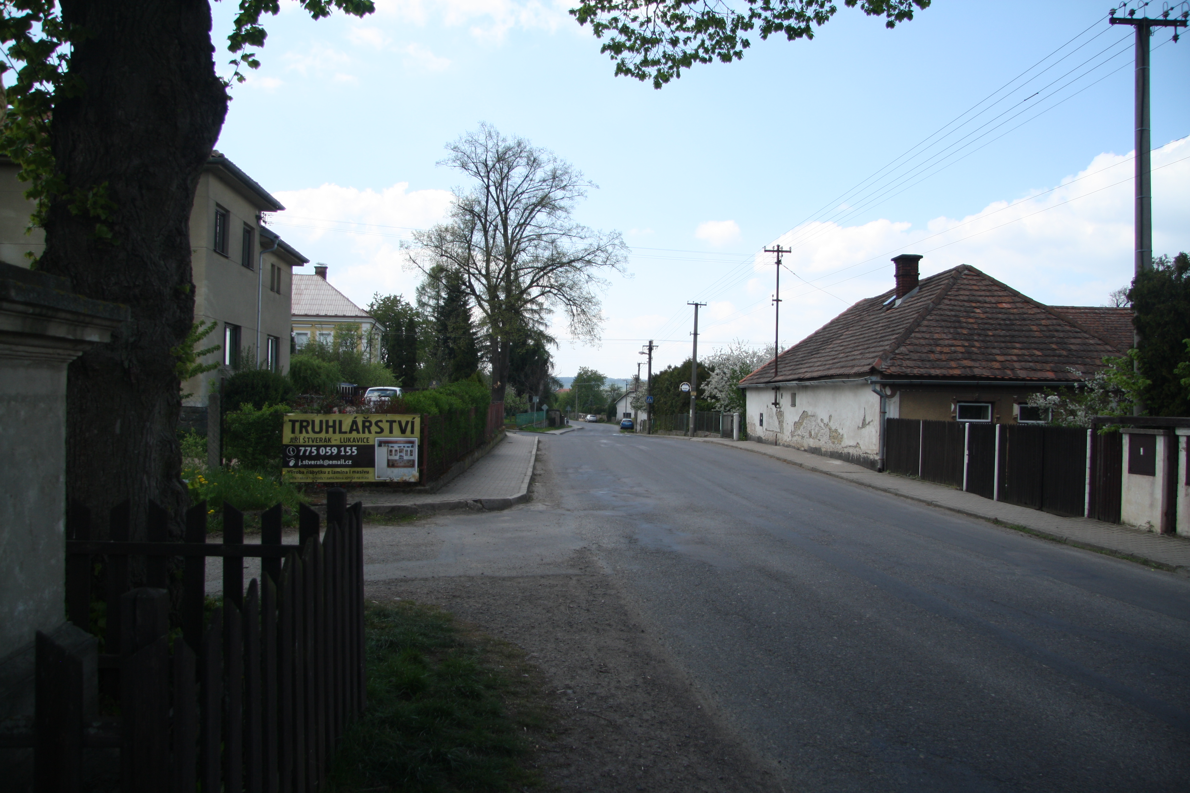 Center of Lukavice, Chrudim District.